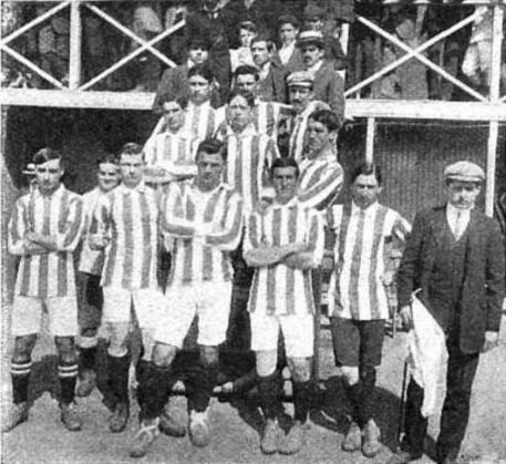 The Montevideo A.C. (former Deutscher Fussball Klub) that played a friendly match v. Argentino de Quilmes.